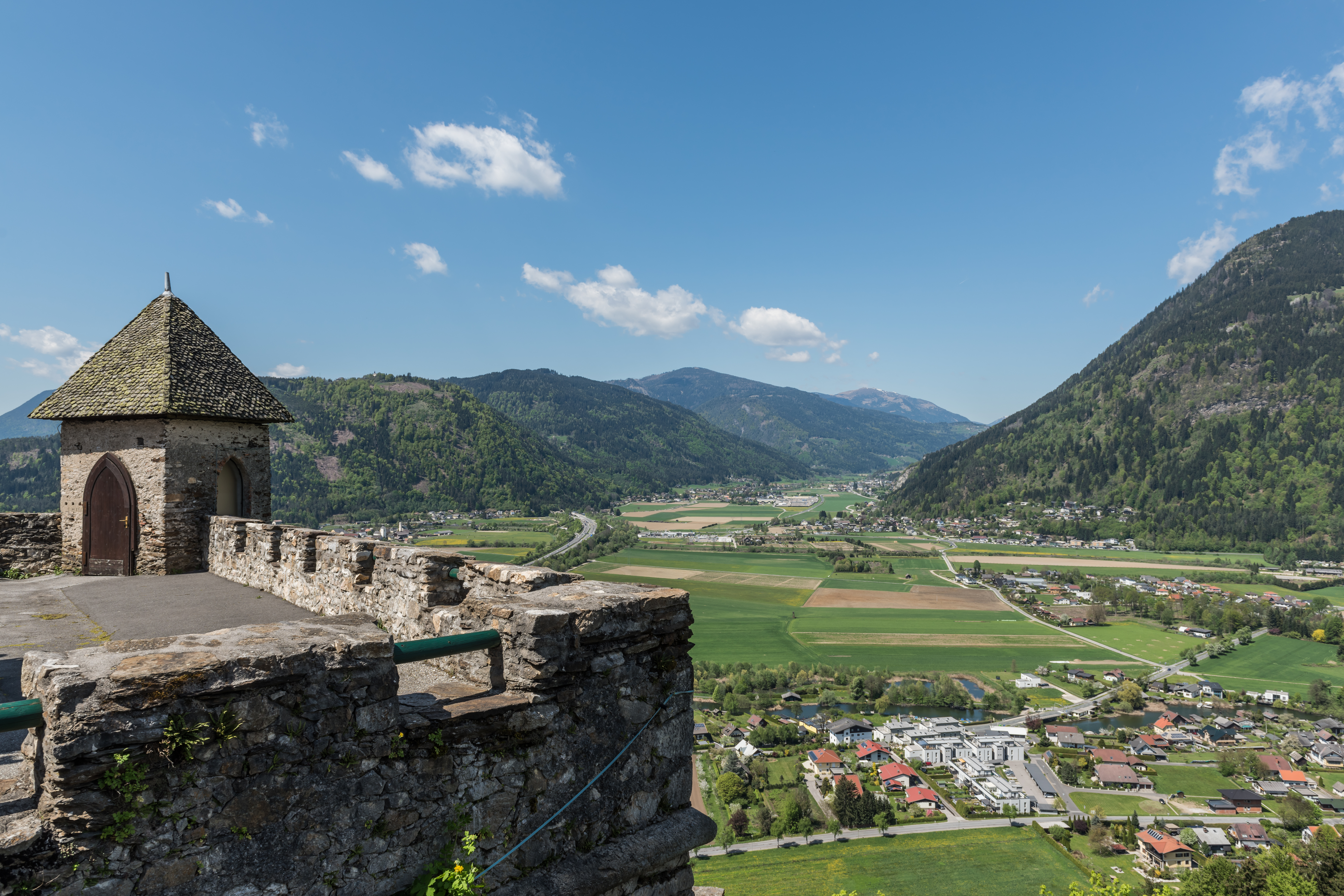 View at Treffen and the Gegendtal from the castle ruin Landskron in Landskron, municipality Villach, Carinthia, Austria, EU